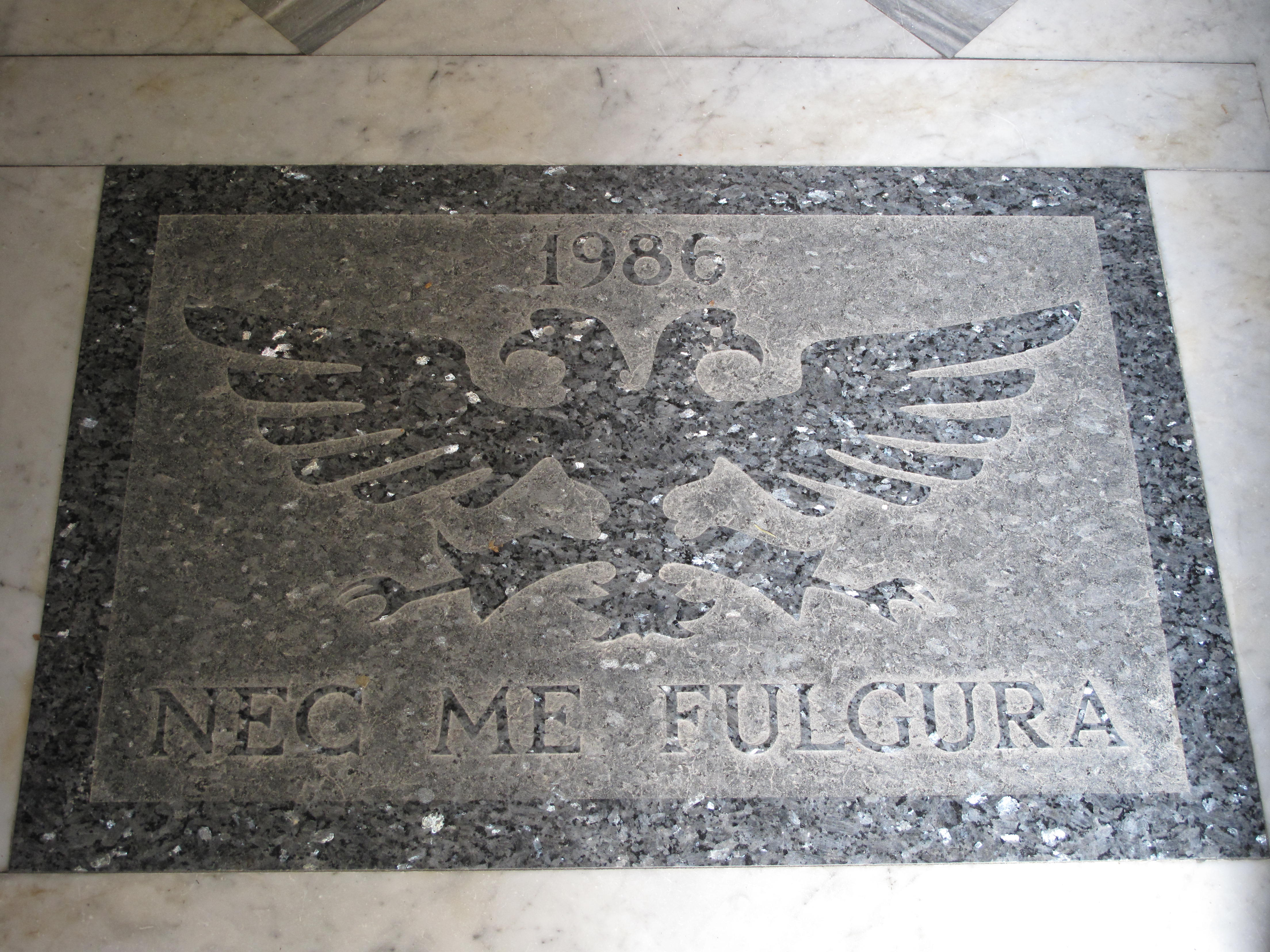 Door sill of the Saint-Peter church of Castellar (Alpes-Maritimes, France). With the motto of Castellar : Nec me fulgura (=even thunderbolt cant hurt me).